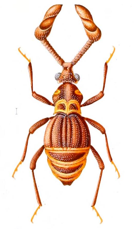 Apharinodes miranda Raffray, 1895